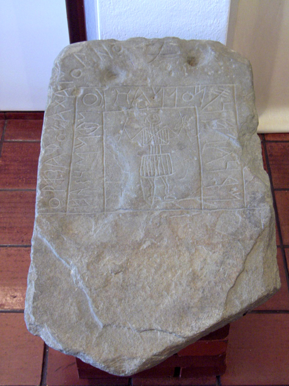 Tombstone (Bronze Age) with antique writing of the Iberians; Museu da Reinha D. Leonor; Beja, Portugal